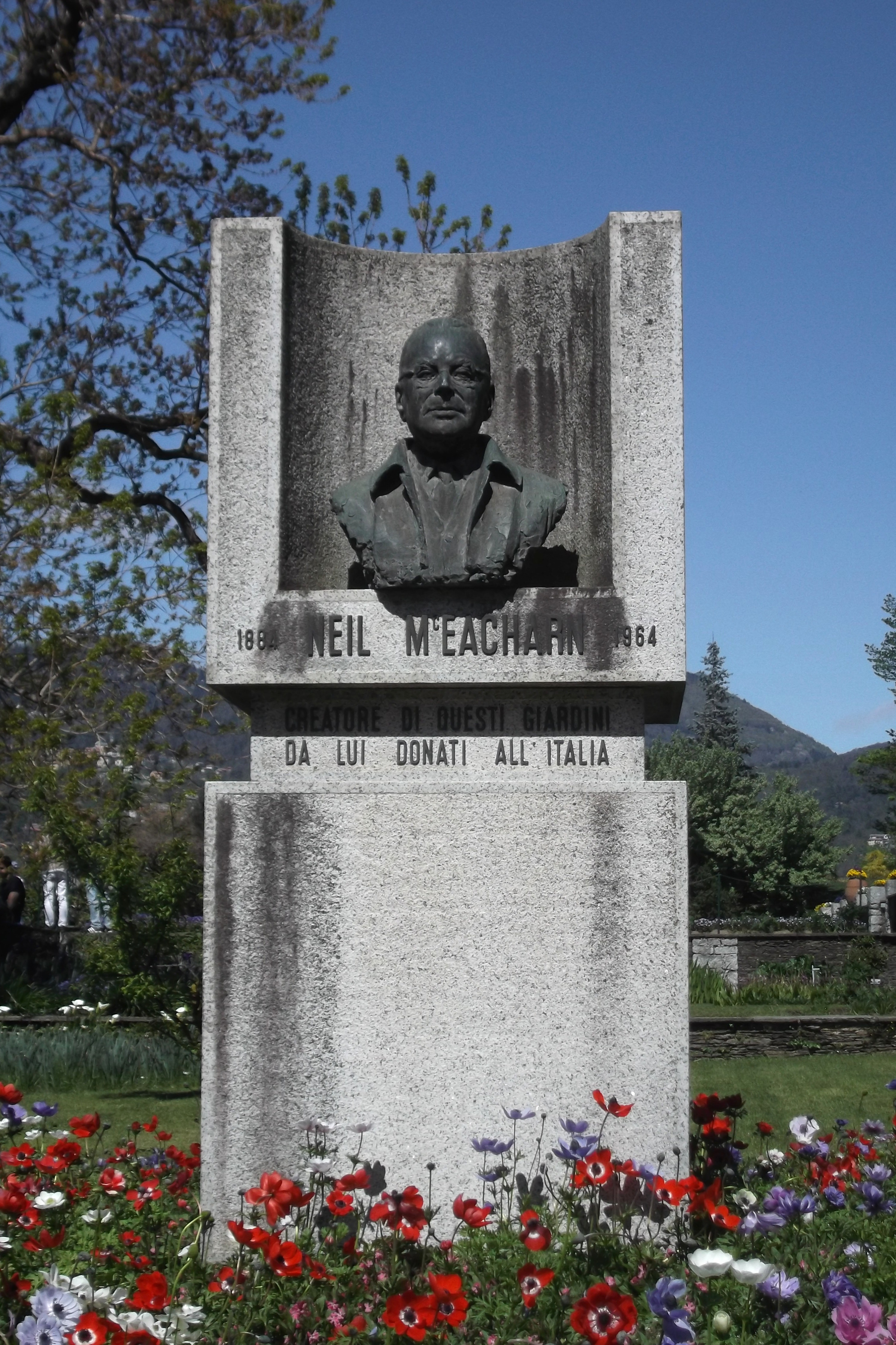 Monument to Neil McEacharn at Villa Taranto, Verbania, Italy